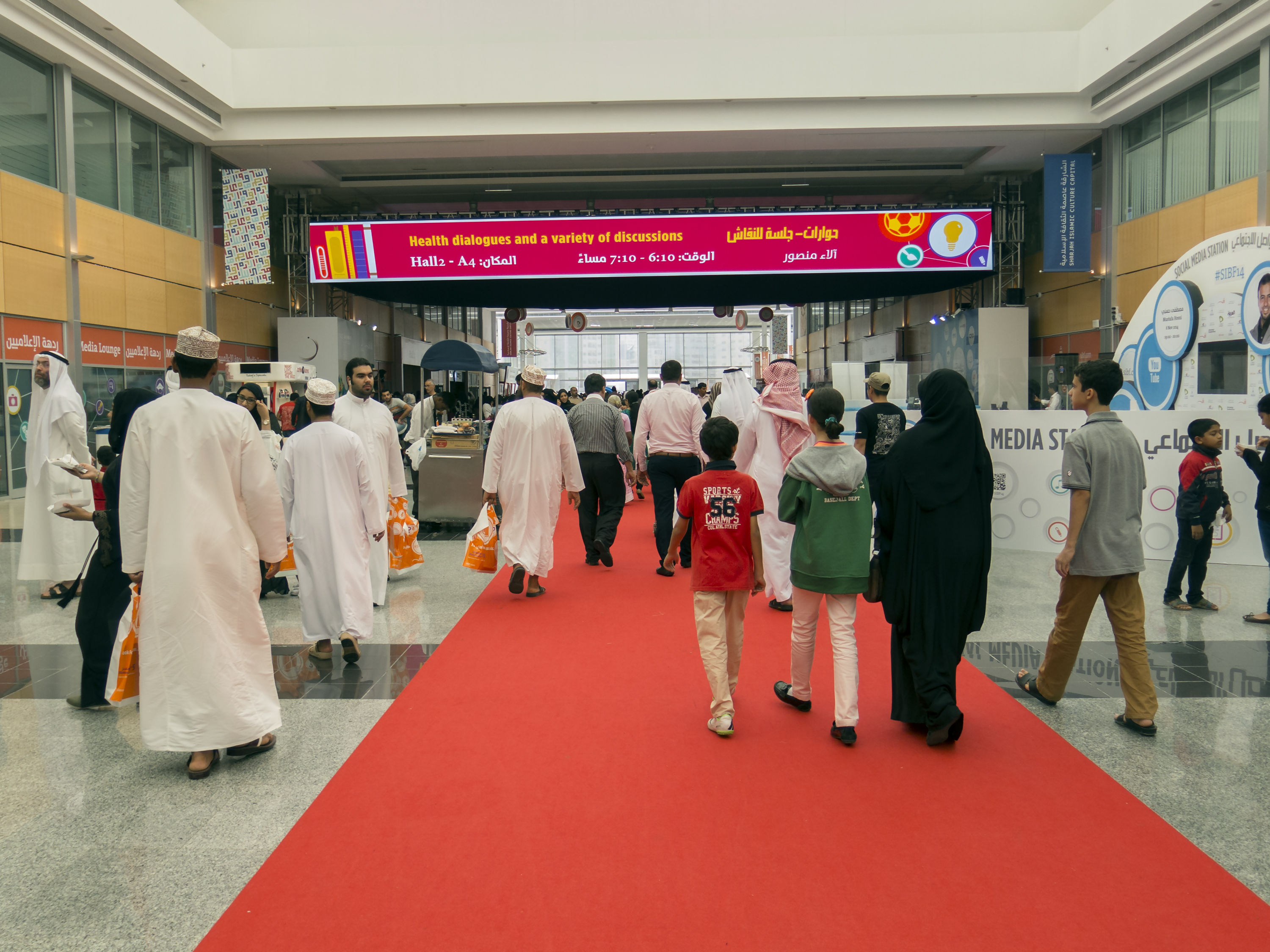 Sharjah International Book Fair is a ten-day event international book fair held annually in Sharjah, United Arab Emirates. The Sharjah International Book Fair started since 1982 under the continued guidance and patronage of His Highness Dr. Sheikh Sultan bin Muhammad Al-Qasimi, the UAE Supreme Council Member and Ruler of Sharjah. Since its inauguration in 1982, Sharjah Book Fair has become to be the 4th largest book fair in the world.